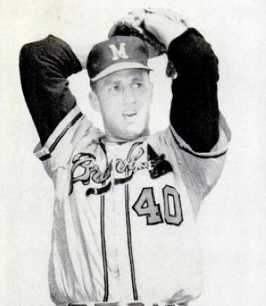 Milwaukee Braves pitcher Tony Cloninger in a 1962 issue of Baseball Digest.